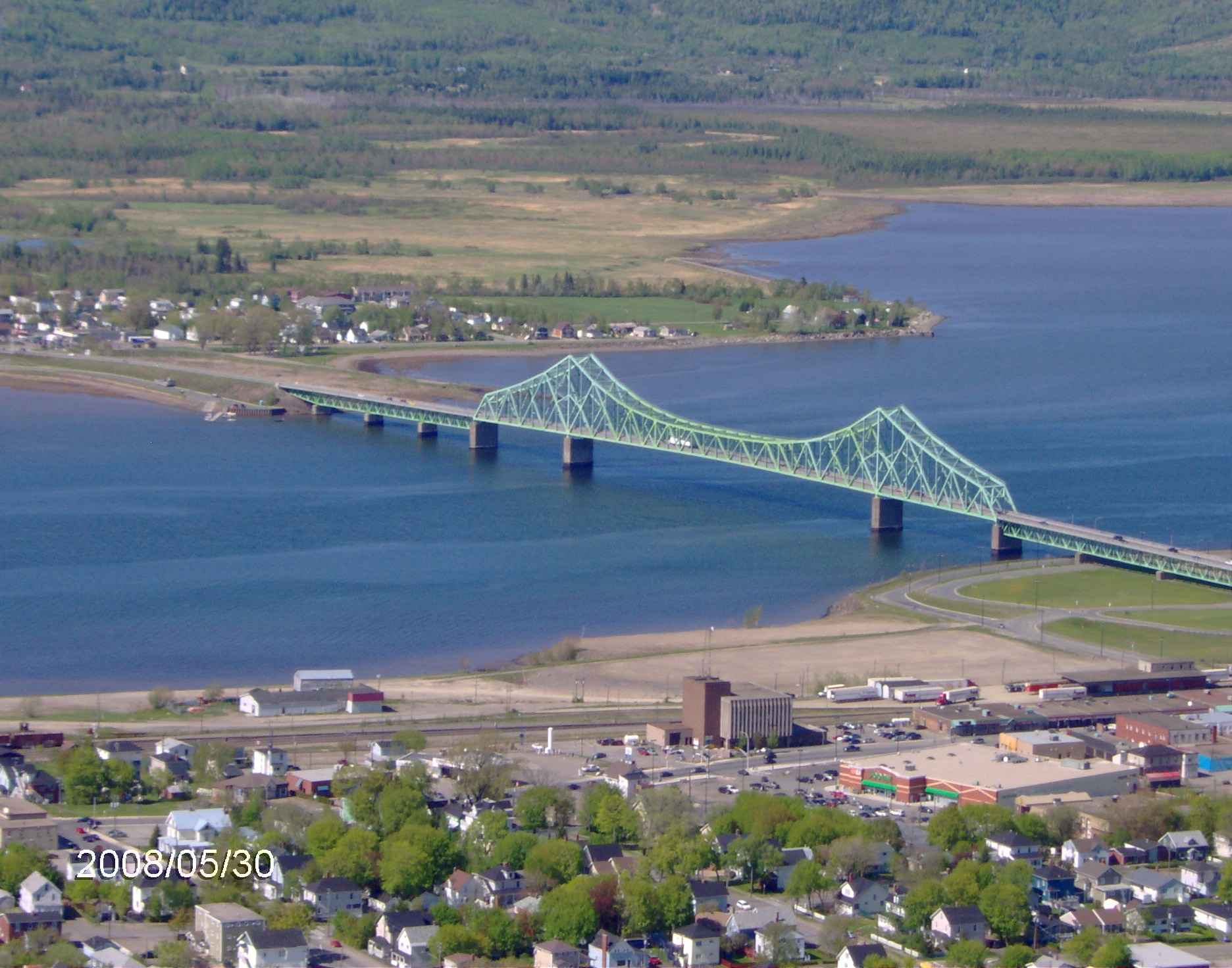 View of Campbellton And JC Van Horne Bridge from atop Sugarloaf Mountain.